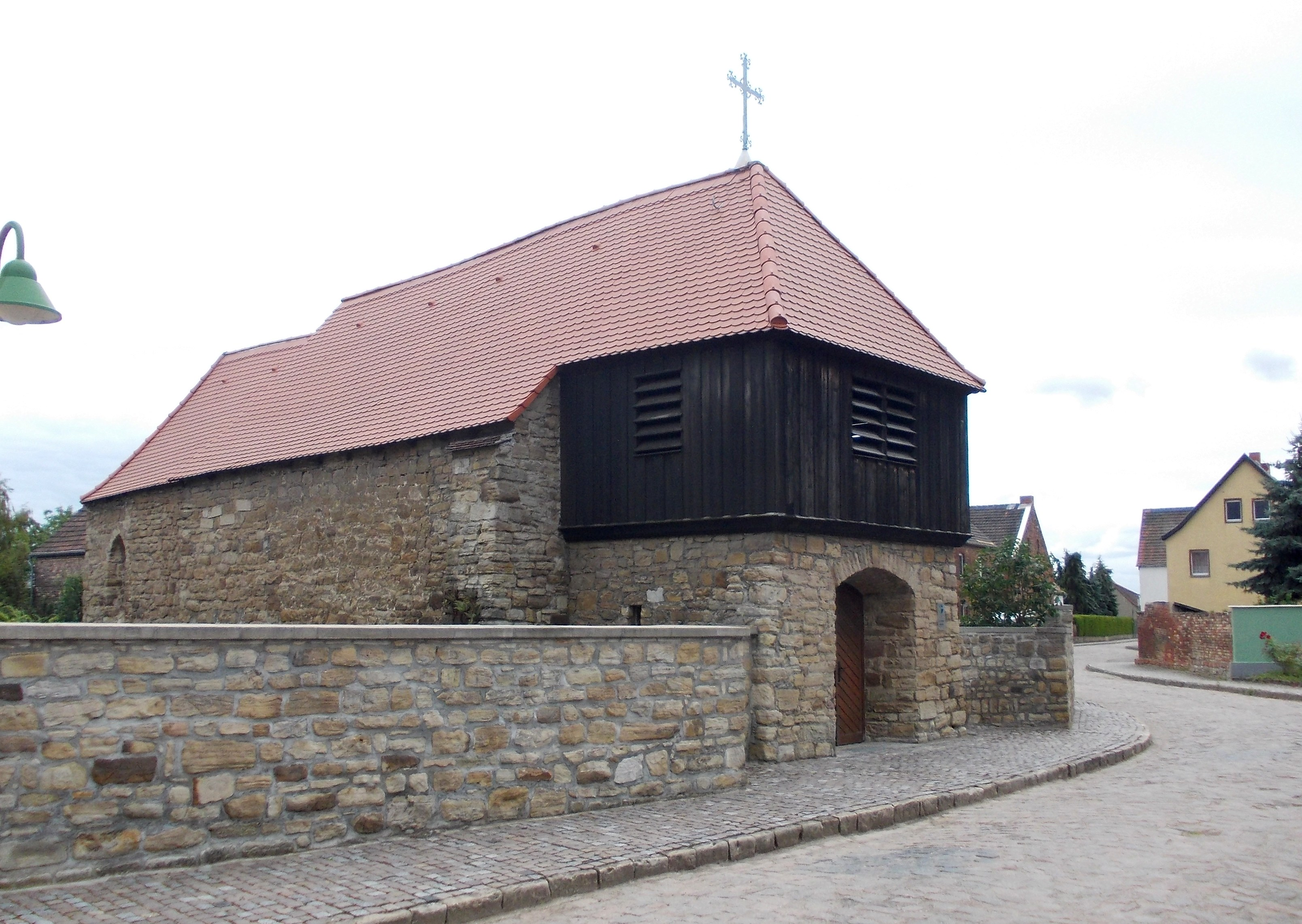 The protestant church of Trebnitz (Merseburg, district: Saalekreis, Saxony-Anhalt)